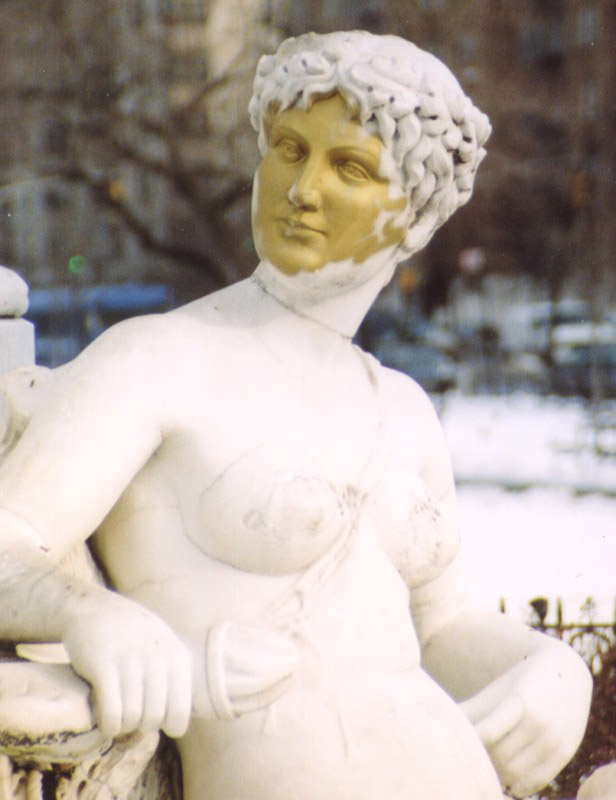 Ernst Herter (1846–1917) Description German sculptor Date of birth/death14 May 184619 December 1917Location of birth/deathBerlinBerlinWork locationBerlinAuthority control VIAF: 77111692 LCCN: n87129740 GND: 118774247 ULAN: 500267506 ISNI: 0000 0001 2102 5176 WorldCat